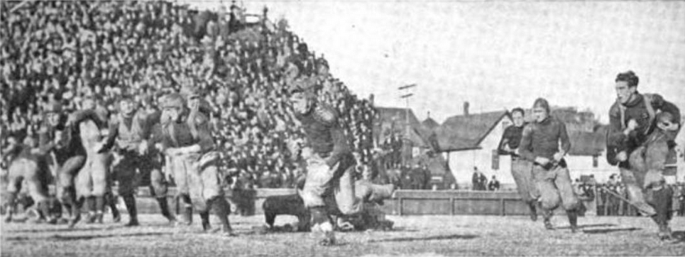 "Lawton gettng away on one of his long runs from the kick formation - Shown at extreme right, behind him Wells and a Minnesota man. McMillan in the foreground, with Edmunds and Benbrook, forming the interference."